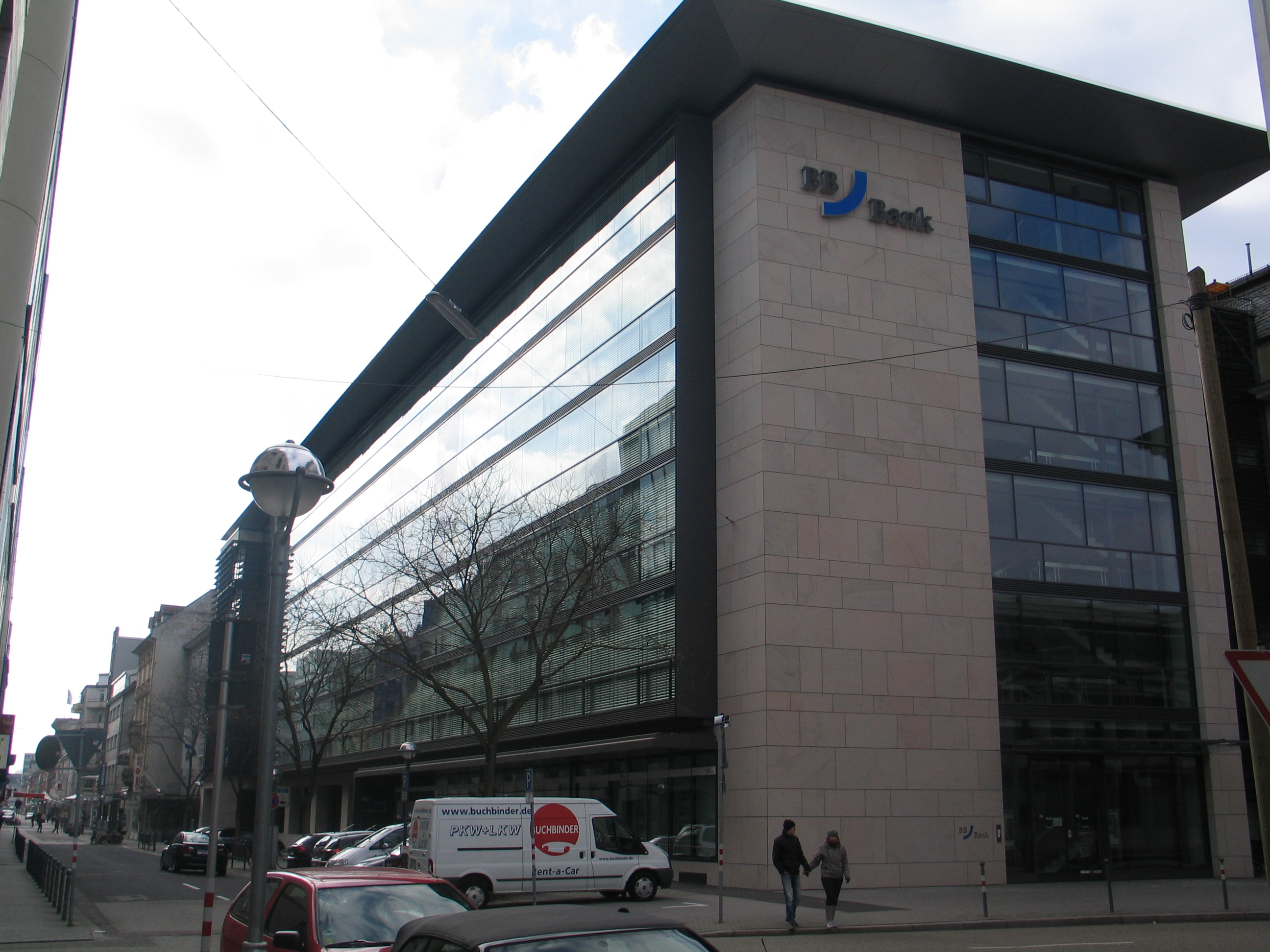 Seat of the BBBank in Karlsruhe